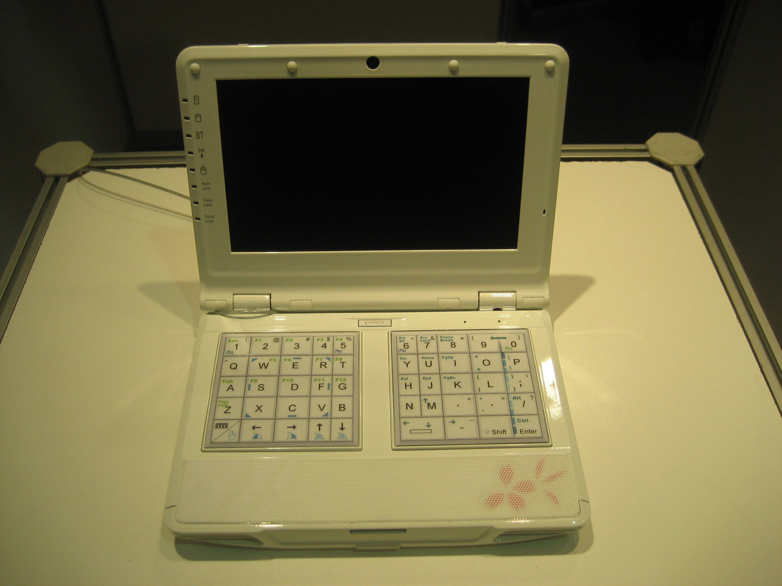 The Noahpad from E-Lead is an innovative new UMPC first shown at CES 2008 in Las Vegas, NV. Based on the VIA Ultra Mobility Platform, this UMPC features a 1.0 GHz VIA C7-M processor, a 30GB hard drive, 512MB of RAM and comes with either Ubuntu Linux or Windows XP installed. Perhaps the most interesting aspect of this device is that the screen can fold underneath the keyboard to enable an entirely new typing experience that has to be seen to believed.